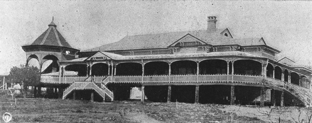 Barambah Station homestead in the Murgon district, Queensland, 1906. View of Barambah Station with its wraparound verandahs and the distinctive pavillion shaped sun room. The builder of the homestead was William Clarry a carpenter from Bundaberg. Mr Clarry stayed on at Barambah as the station carpenter and built a billiard table which became the centre of social activity on the property.